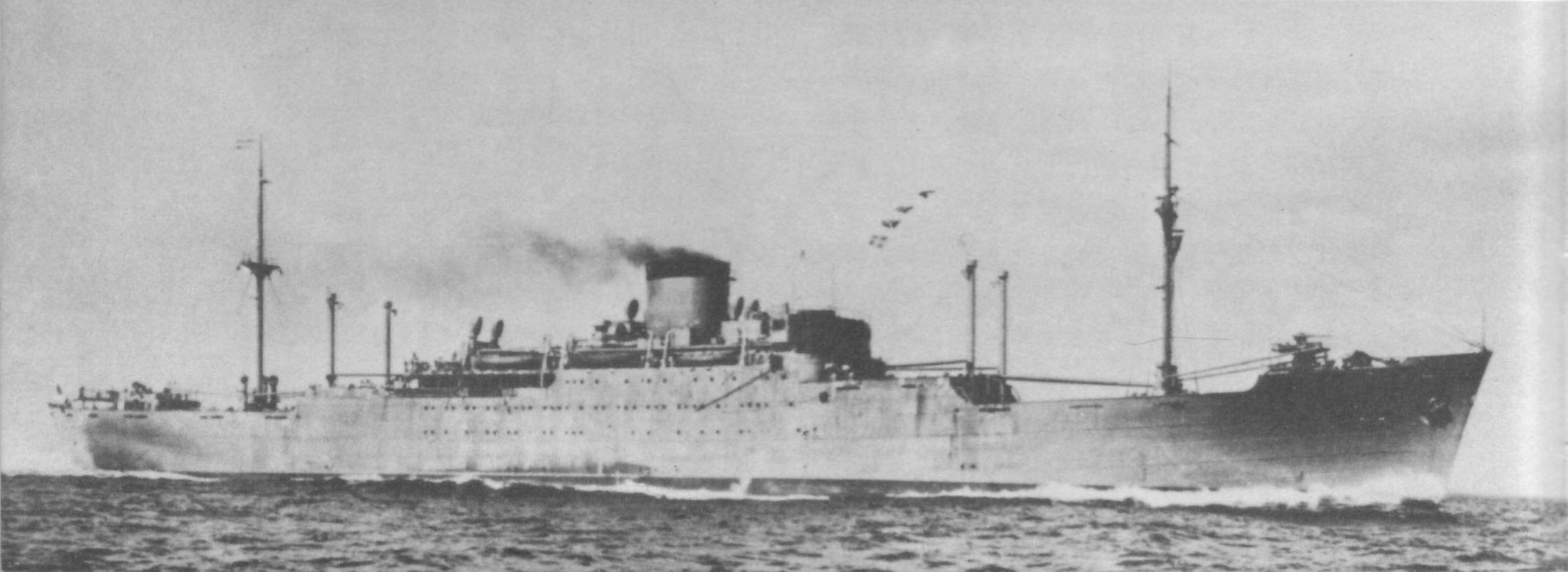 NYK Line "Aki Maru"